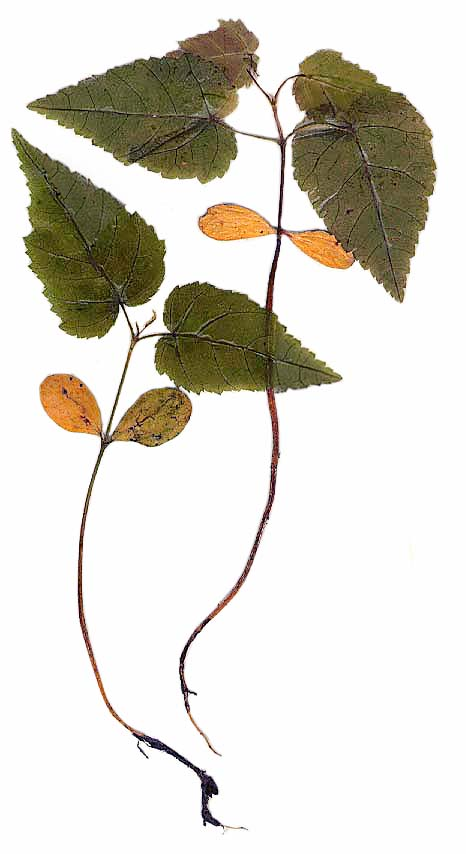 Acer tataricum seedlings